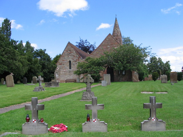 Churchyard, St John the Baptist, Baginton The graves in the foreground are those of three of the nine airmen of 308 Polish Squadron Polish Air Force buried here: St Szer (AC1) Krzeminski Franciszek 4-10-1908 14-11-1940 Szer (AC2) Jurkowski Josef 8-7-1920 14-11-1940 Szer (AC2) Cebula Edward 5-3-1916 14-11-1940 Ppor Pil (PO) Koczor Ryszard 2-10-1916 4-12-1940 Kpl Pil (FLt) Nikonow Witalis 28-5-1903 11-1-1941 Ppor Pil (PO) Wolski Jerzy 21-2-1917 11-1-1941 Plut Pil (Sgt) Parafinski Mieczyslaw 28-11-1914 26-2-1941 Kpr (Cpl) Gawlik Pawel 3-1-1942 Plut (Sgt) Lesniak Anton 3-1-1942 The squadron was based at nearby RAF Baginton (now Coventry Airport) for a period during WWII. The Polish Air Force in Britain was recognised as a sovereign force with allegiance to the Polish government, but subject to the RAF in matters of training, discipline, organisation and operation. 14-11-1940 is the date of the night air raid that destroyed much of Coventry city centre.